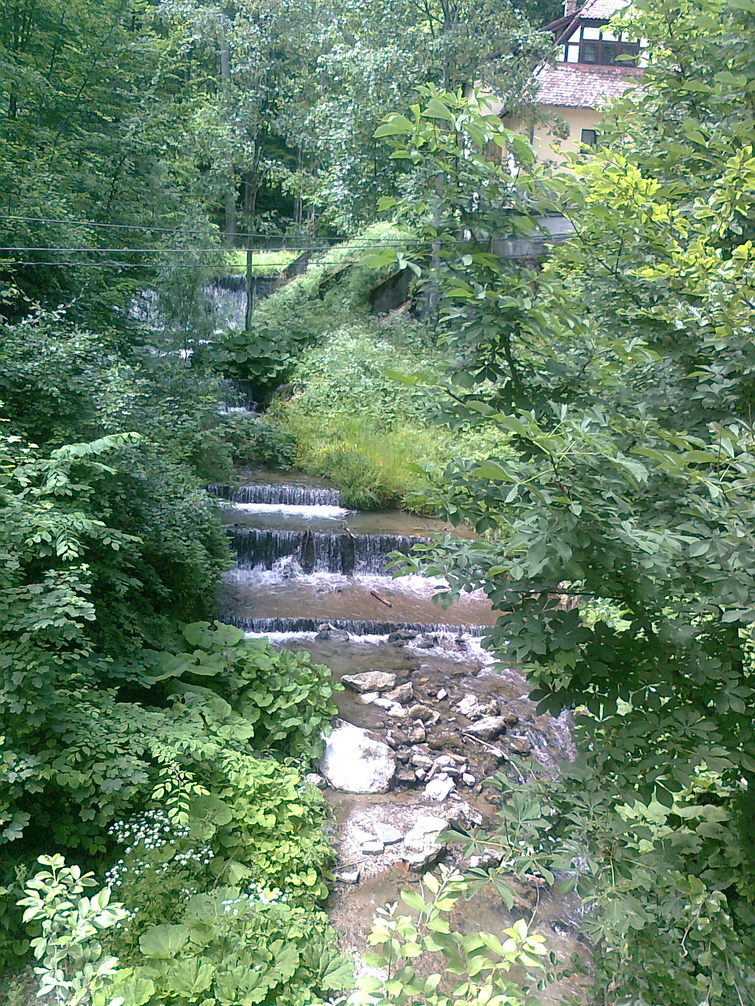 Peleş River, a river of the Ialomiţa subbasin